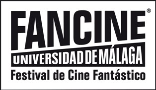 Logo